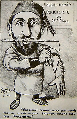 Political cartoon portraying Sultan Hamid as a butcher for his harsh actions against the Ottoman Armenians "So lucky! While they are busy elsewhere, I will still be able to make some Armenians bleed!"